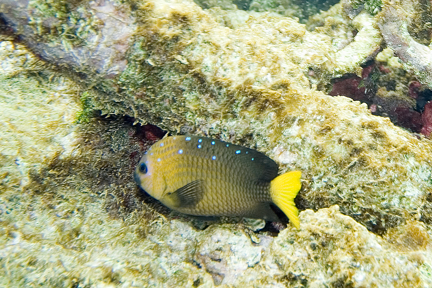 yellowtail damselfish Microspathodon chrysurus